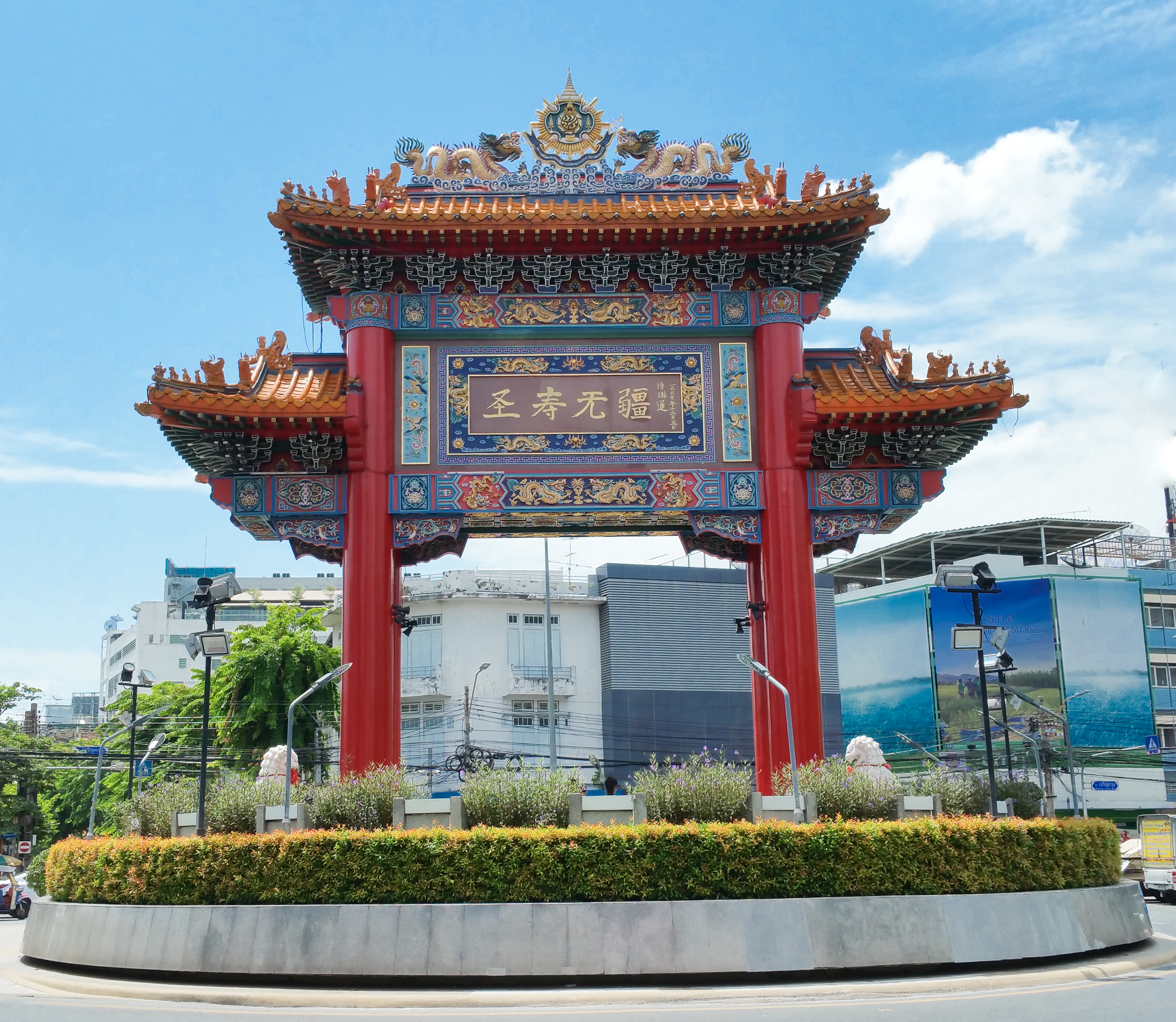 The entrance gate to Chinatown in Bangkok, Thailand.